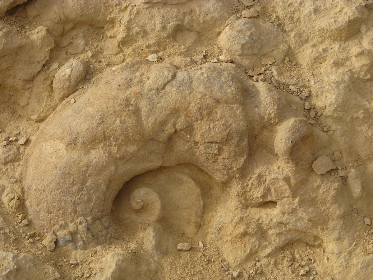 A picture of a large ammonite (~45 cm in diameter) from the Ammonite Wall in Makhtesh Ramon